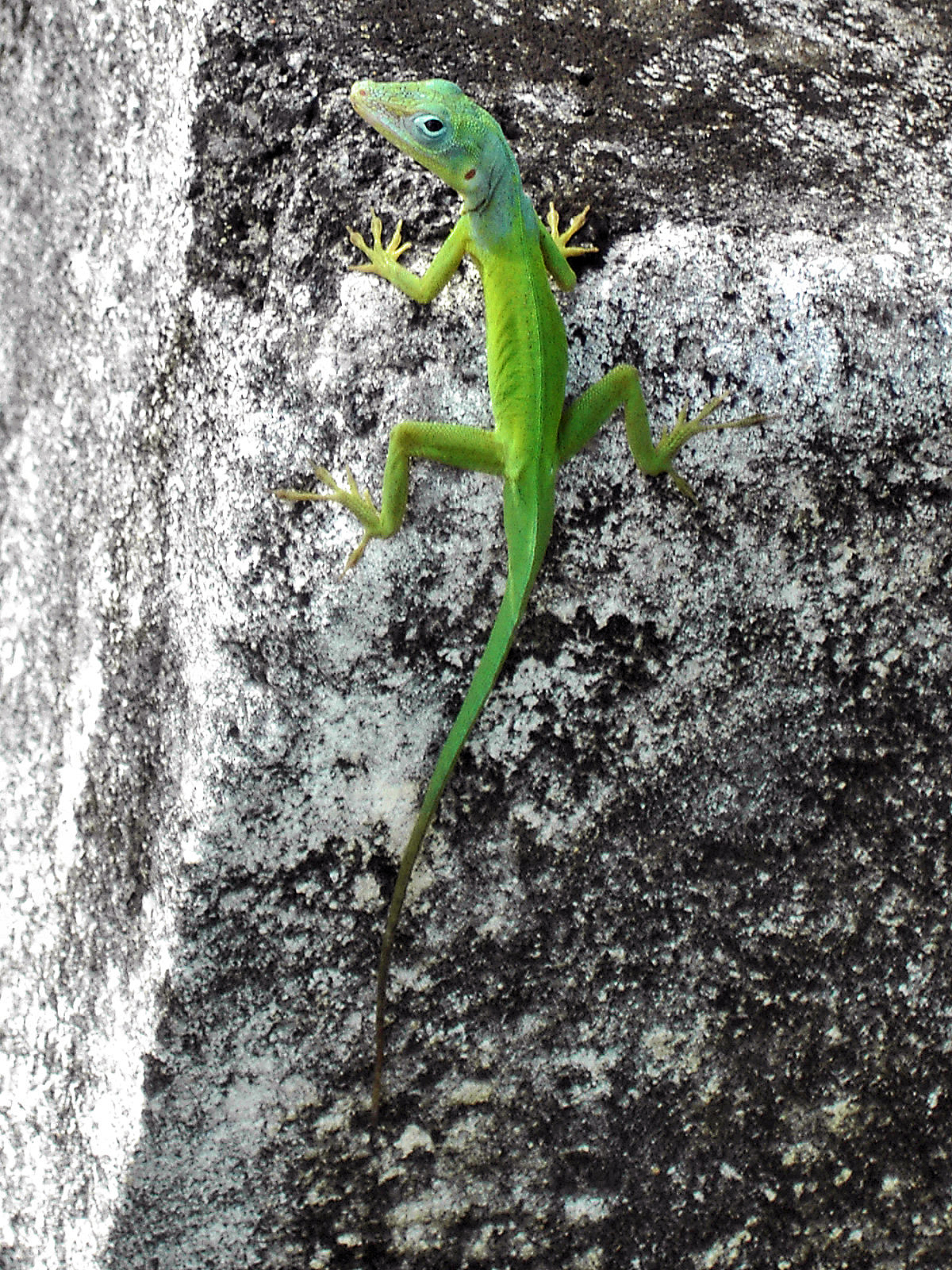 Endemic anole at Le Gosier, Guadeloupe, W.I.